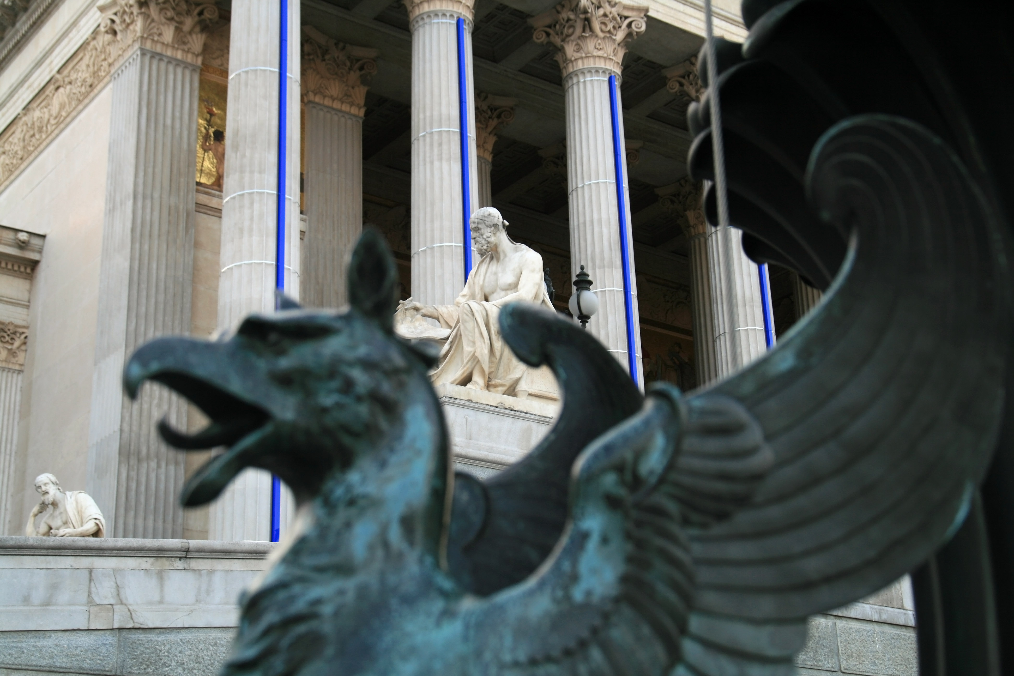 Front of the Austrian Parliament Building in Vienna with statues of the ancient greek historians Polybius (right) and Herodotus, a griffin at the foot of one of the flagpoles in the foreground.